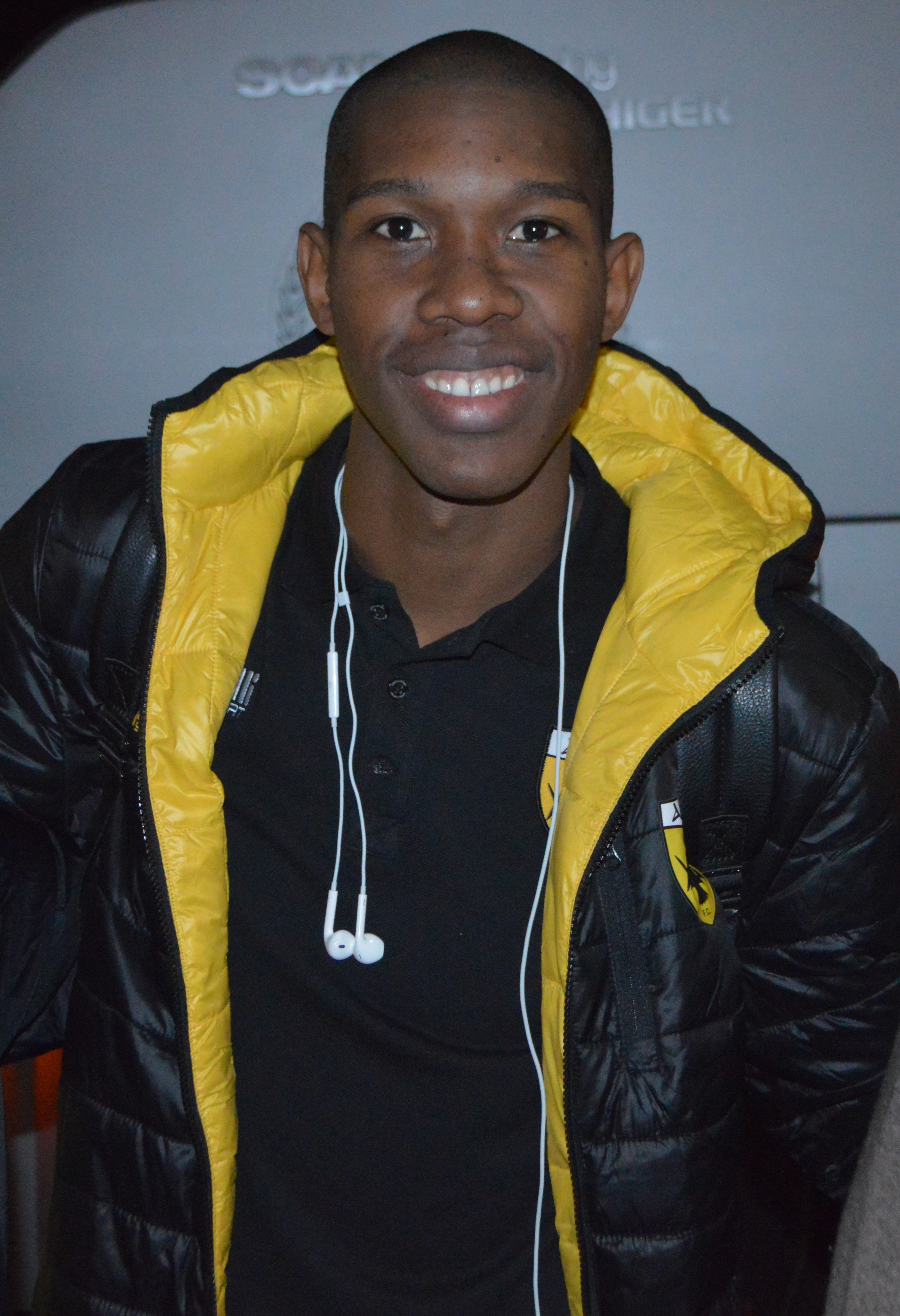 Alef in action with AEK